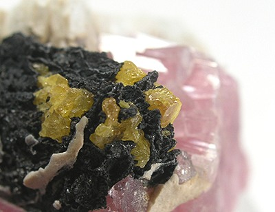 Albite, Tapiolite, Quartz, Stibiotantalite Locality: Cryo-Genie Mine (Cindy B-Cryogenie; Lost Valley Truck Trail prospect), Warner Springs, Warner Springs District, San Diego County, California, USA (Locality at ) Size: miniature, 4.4 x 2.1 x 1.8 cm Stibiotantalite (yellow) on Tapiolite with Quartz, Tourmaline and Albite This is a unique specimen, the best of its small pocket. It was in the Chris Korpi collection and he made a point to obtain many of the oddball things that came out of this small series of pockets we lovingly call a mine. This is one that he had kept for a reference suite, when I bought the core of his collection some time ago. It remains an interesting and unique piece.